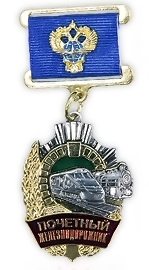 Breast badge "Honoured Rail Worker" of the Russian Ministry of Transport